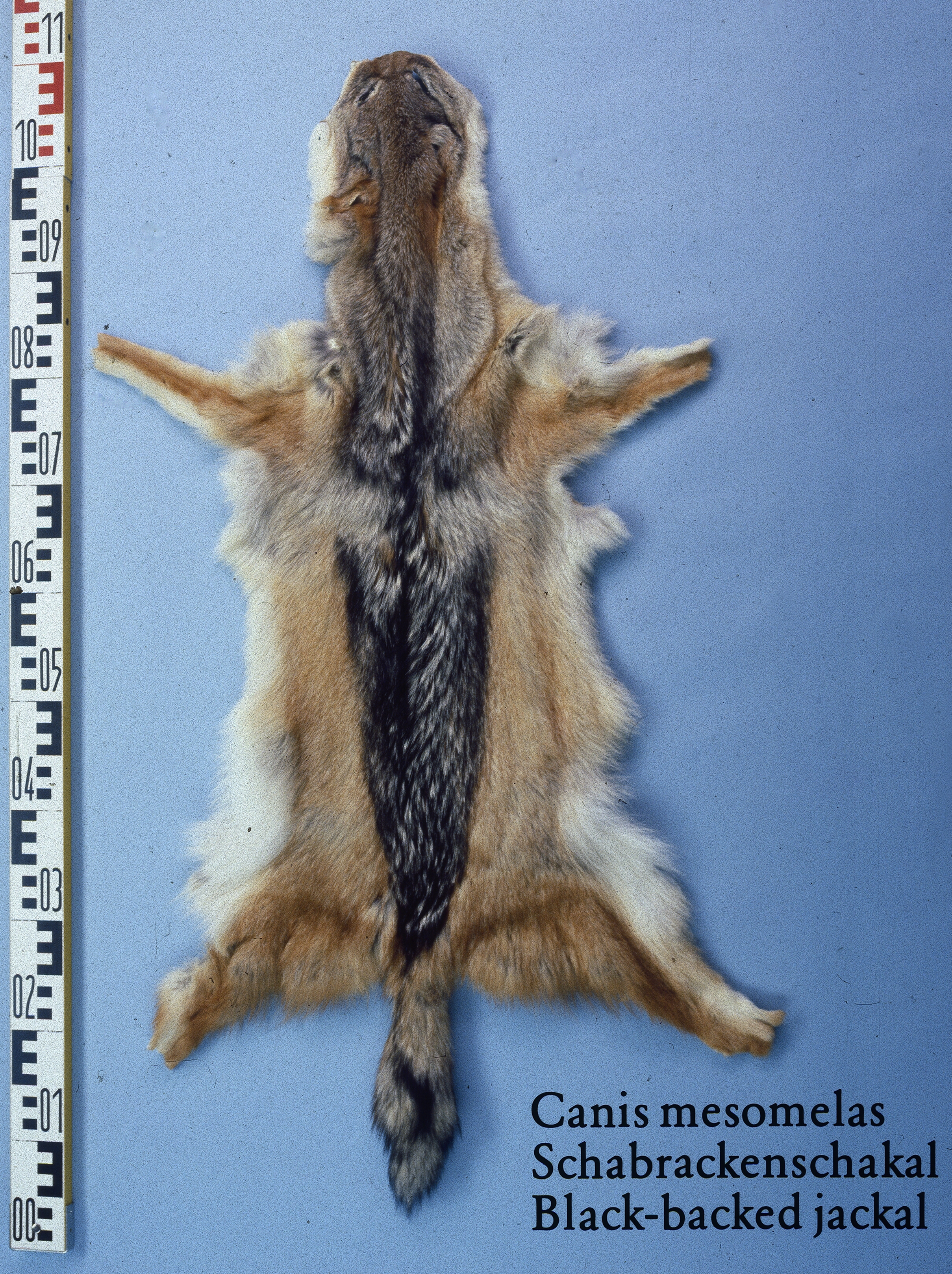 Black backed jackal fur skin (Canis mesomelas). Fur skin collection, Bundes-Pelzfachschule, Frankfurt/Main, Germany